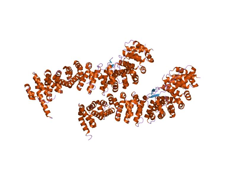 Cartoon representation of the molecular structure of protein registered with 1i7x code.